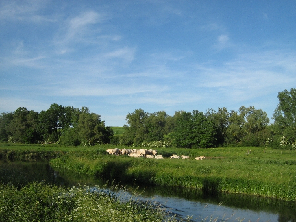 The river Tollense near the village Burow in the District Mecklenburgische Seenplatte